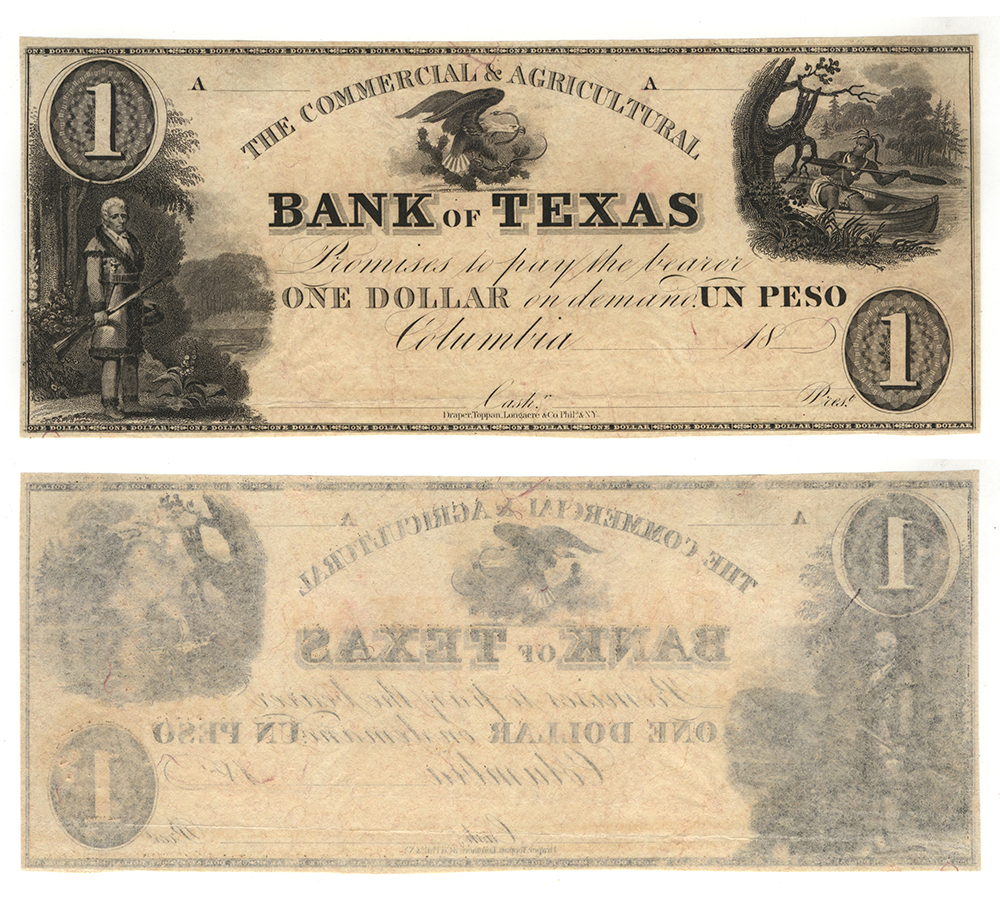 Title: Commercial and Agricultural Bank of Texas $1.00 (one dollar) private scrip County of Origin: Brazoria County Town of Issue: Columbia Currency Type: Private Scrip Denomination: $1.00 Bank Issuer: Commercial and Agricultural Bank of Texas Imprint: Draper, Toppan, Longacre & Co. Phila. & NY Date Issued: ca. 1835 Vignette: (L) Hunter standing. (C) Mexican eagle, snake, and cactus. (R) Indian in canoe. Notes: This private scrip was issued in Columbia by The Commercial and Agricultural Bank of Texas. In the lower-left corner of note is a vignette of a hunter standing in place. A Mexican golden eagle perched on a cactus and devouring a snake is depicted in the upper-center of the note. In the upper-right corner is a vignette of an Indian in a canoe. The note is denominated in dollars and pesos. The plate designation A appears in two locations along the top edge of the note. The Commercial and Agricultural Bank of Texas was the only bank ever authorized in Texas prior to the organization of National Banks in 1865. The bank was chartered to Samuel M. Williams by the Mexican Government on April 30, 1835. Because of charter requirements, the bank was never opened at Columbia although notes and other fiscal papers were prepared. The bank did open at Galveston in 1848 and did issue currency for a short time. Notes on the bank are rare, and the examples recorded were reconstructed from Louisiana notes of the CSA era which had been printed on the reverse. Signatures: [blank] Cash.'; [blank] Prest. Dimensions: 8 x 18.5 cm. File: BrazoriaColumbia0000009_opt.jpg Rights: Please cite DeGolyer Library, Southern Methodist University when using this file. A high-resolution version of this file may be obtained for a fee. For details see the web page. For other information, . For more information, View the Rowe-Barr Collection of Texas Currency